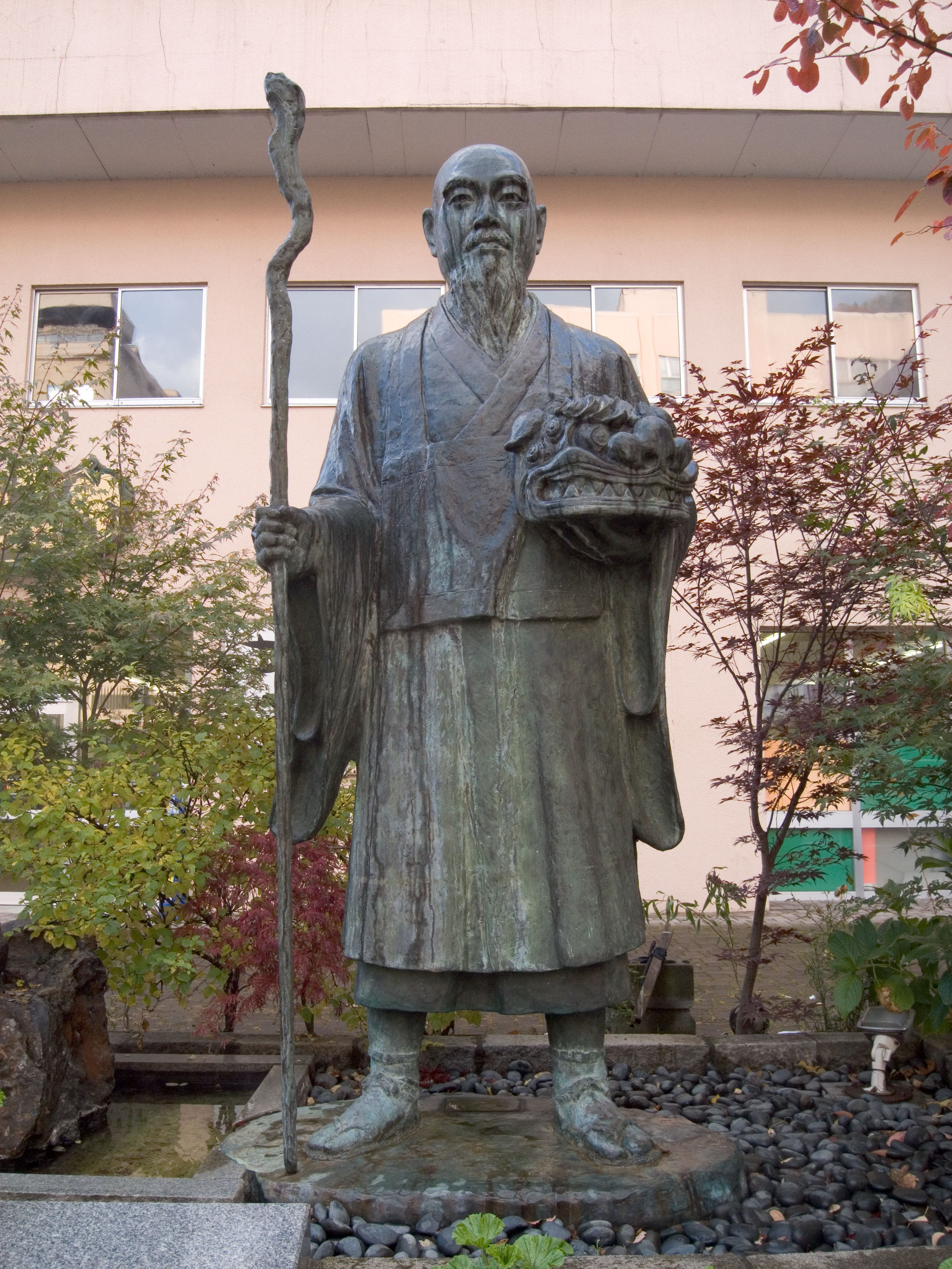 Bronze Statue of Miizumi Jozan, Sapporo, Hokkaido, Japan